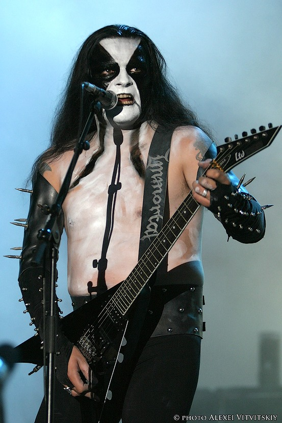 Abbath during the Immortal concert at the 2007 Wacken Open Air.